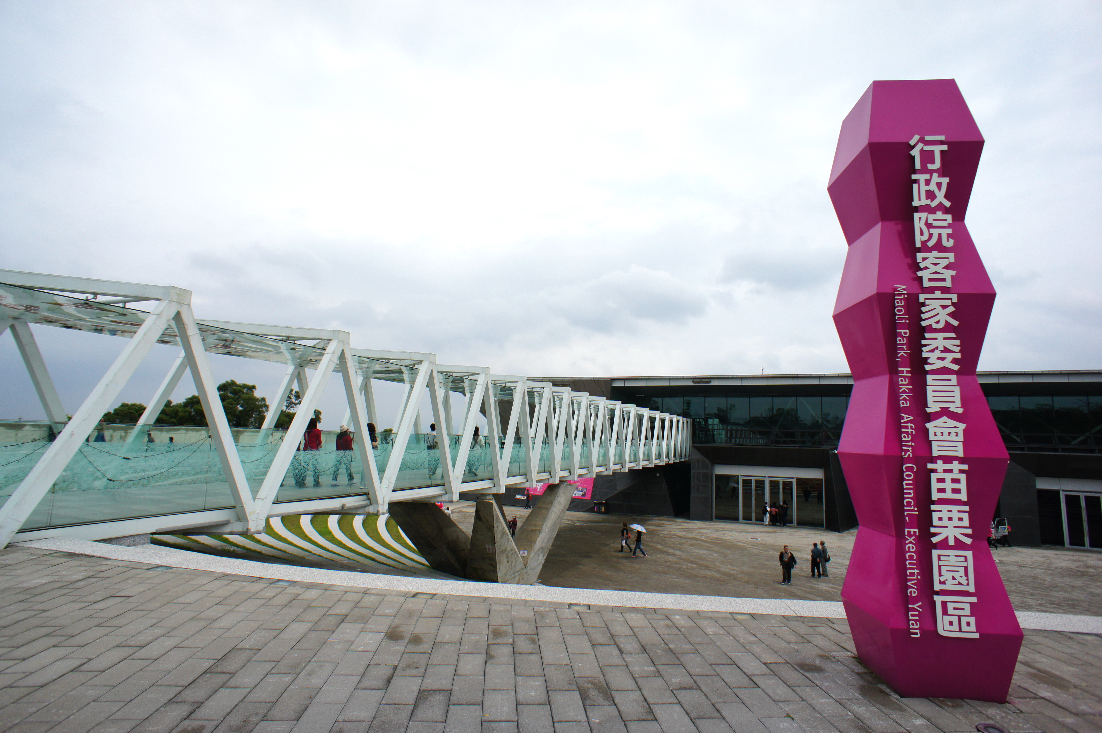 Miaoli Park, Hakka Affairs Council, Executive Yuan..